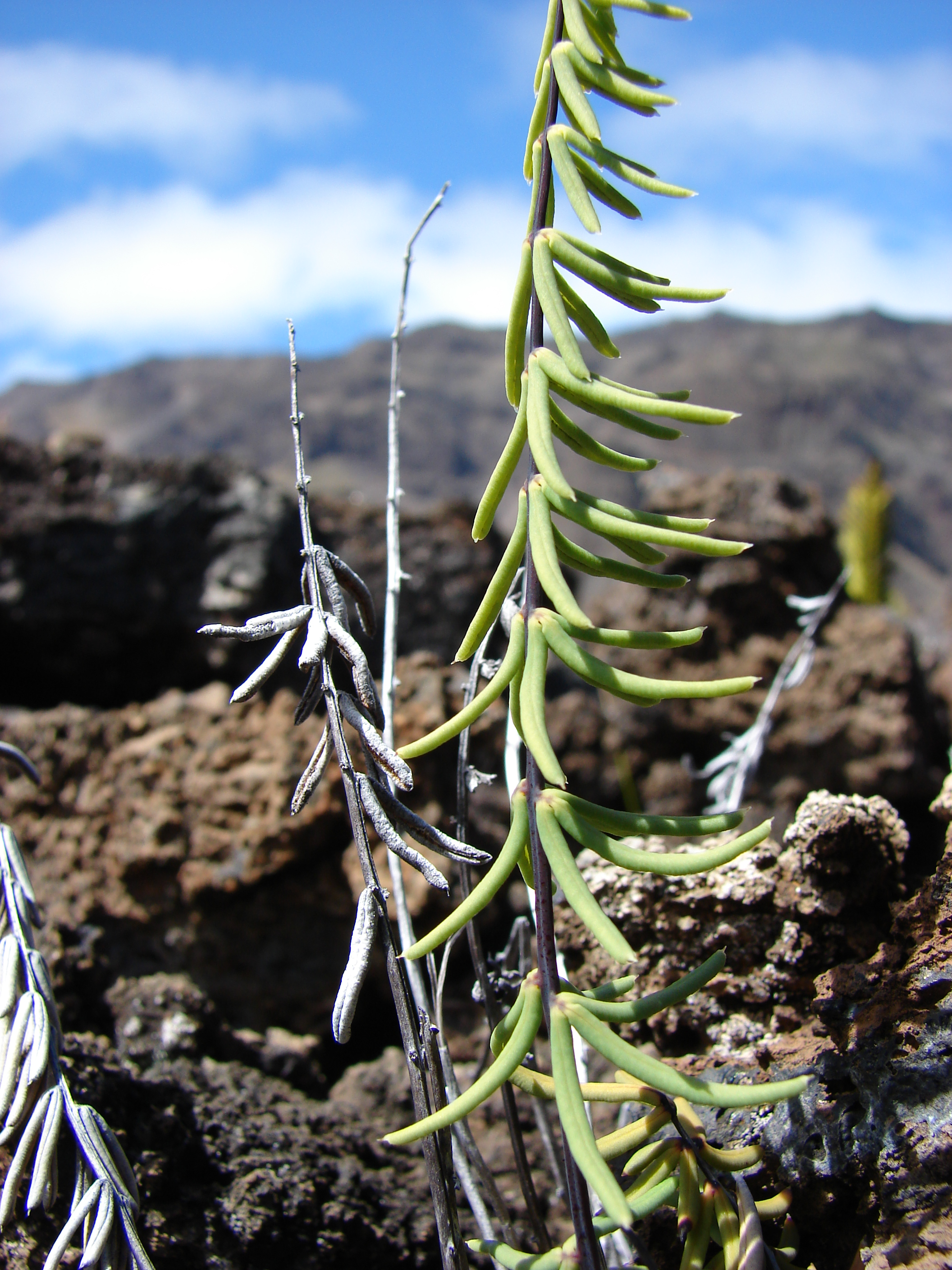 Pellaea ternifolia (habit). Location: Maui, Halemauu Trail Haleakala National Park